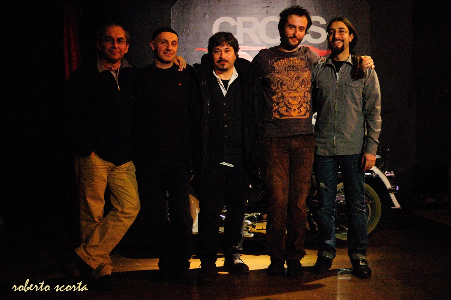 Nosound at Xroads Live Club, Rome, Italy